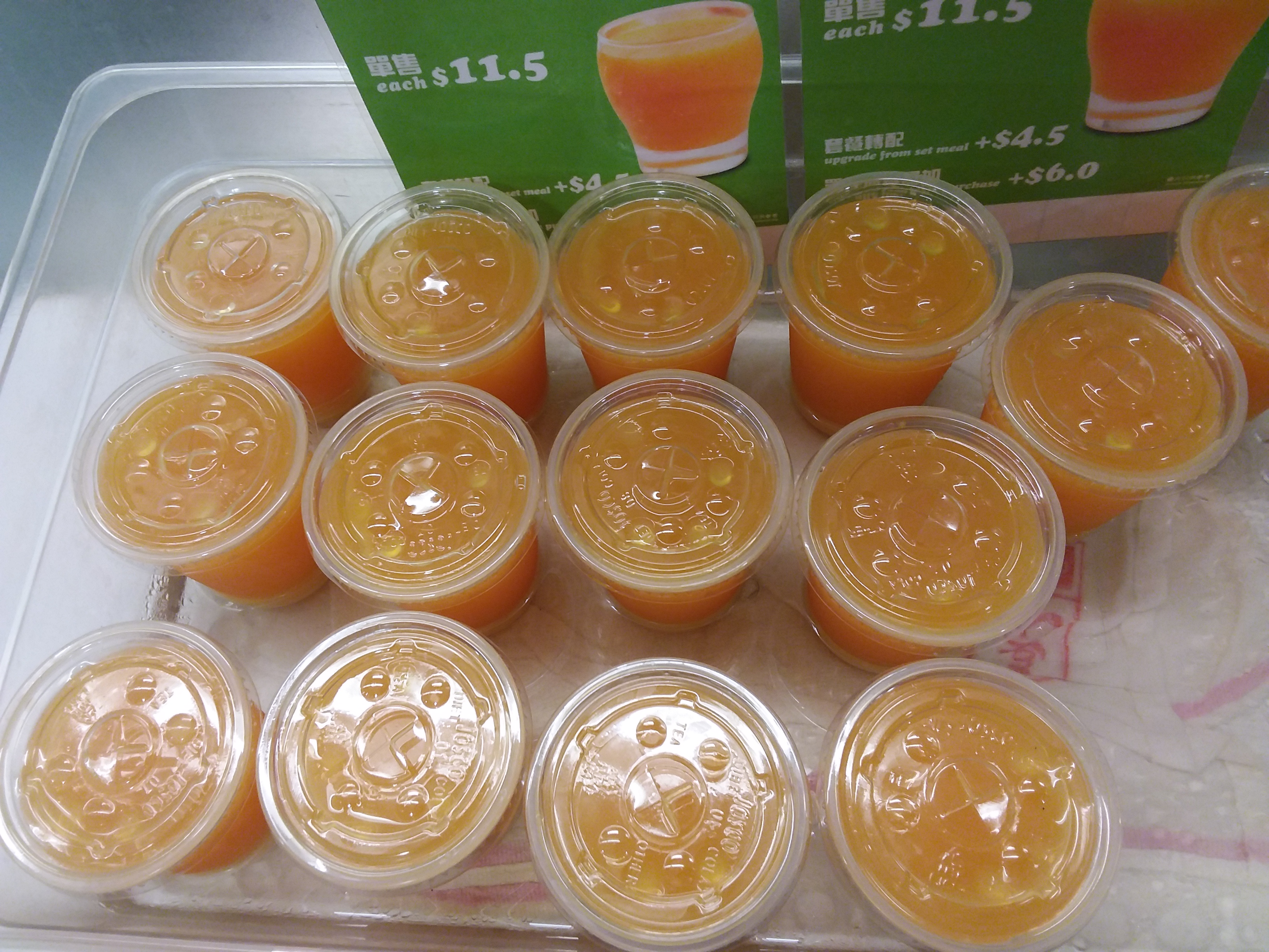 HK 香港理工大學 PolyU 紅磡 Hung Hom in May 2019